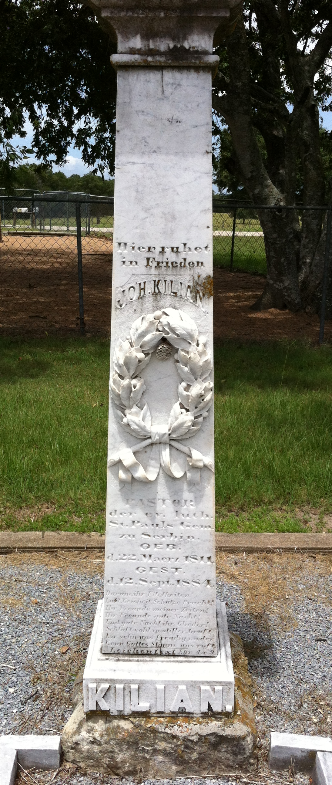 Gravestone of Rev. Jon/John/Johann Kilian, in Serbin, Texas. Ironically, he left Germany to establish a Sorbian (Wendish) enclave, but his gravestone is in German.